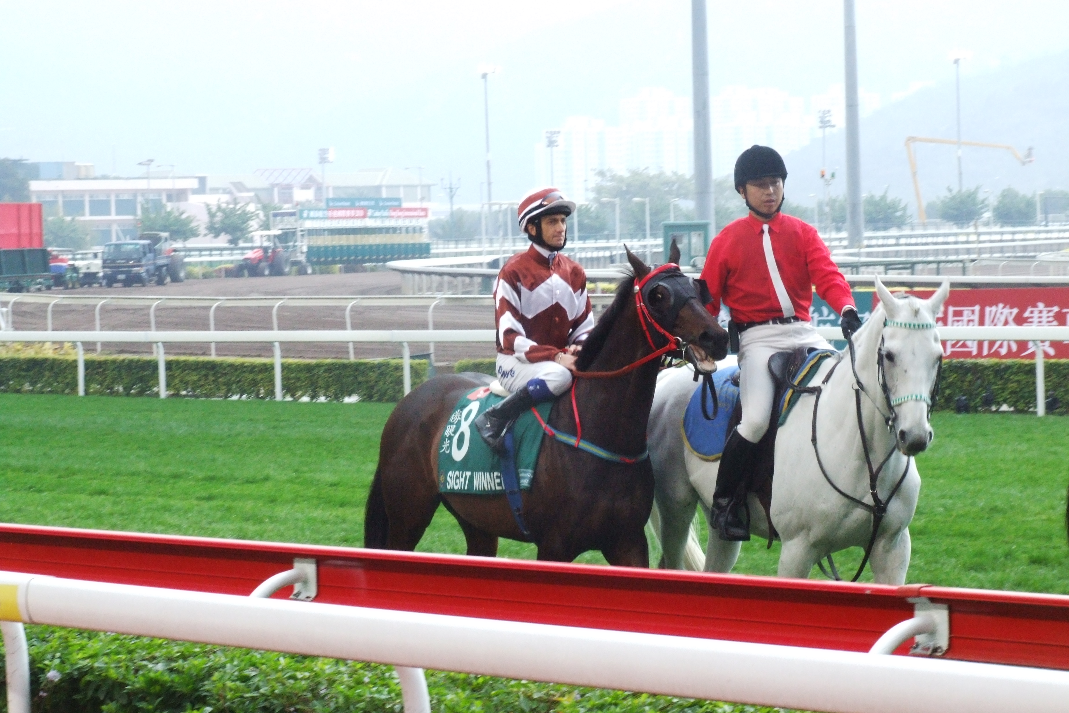 Sight Winner 中文（香港）: 勝眼光